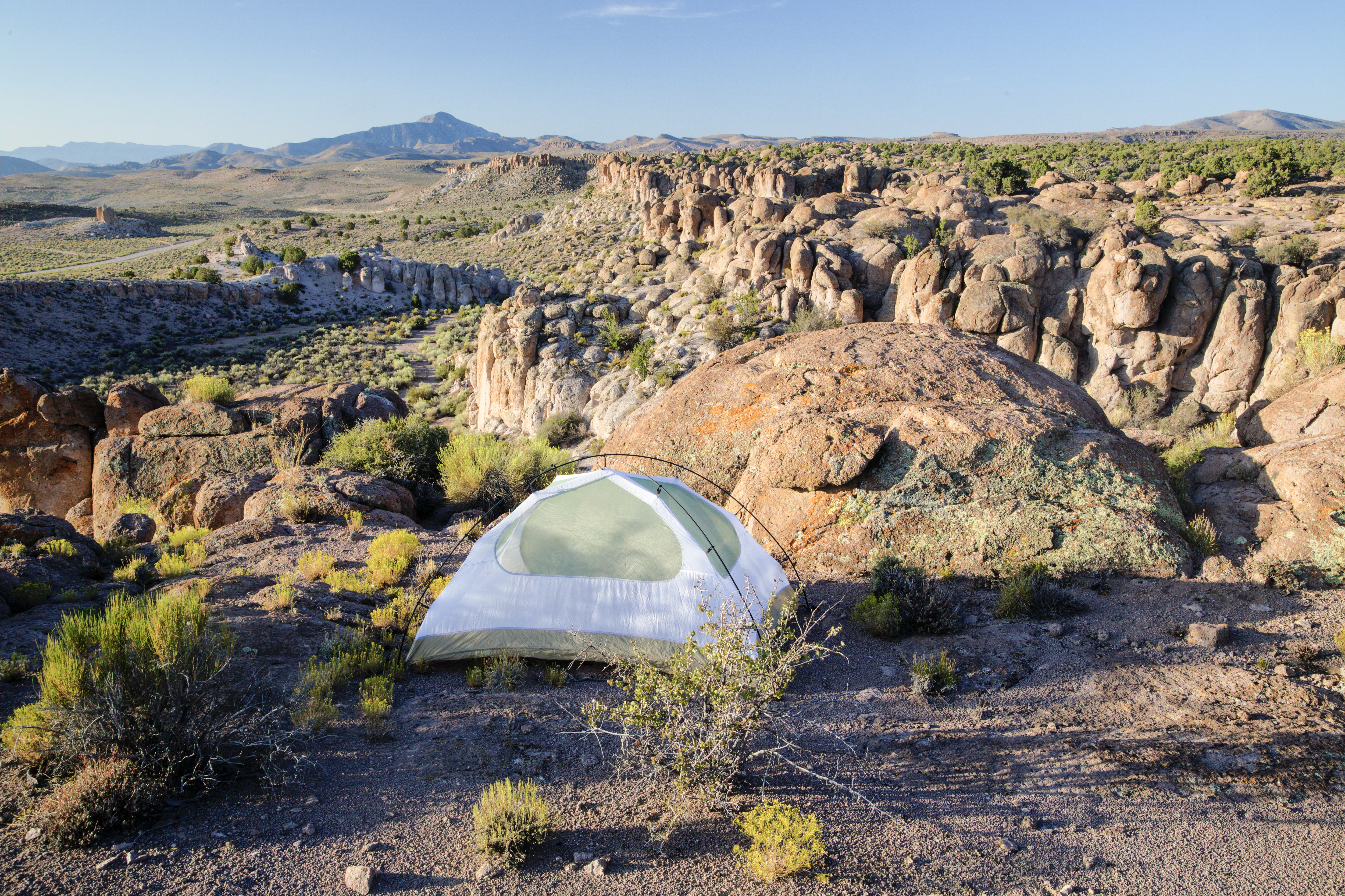 BLM Photo Bob Wick